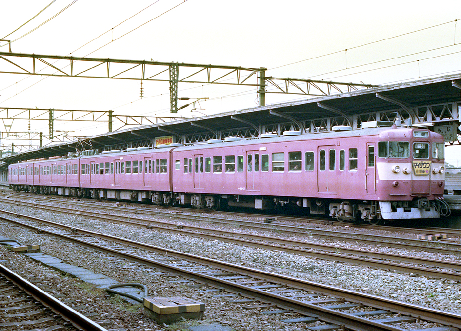 A JNR 421 series EMU at Moji Station